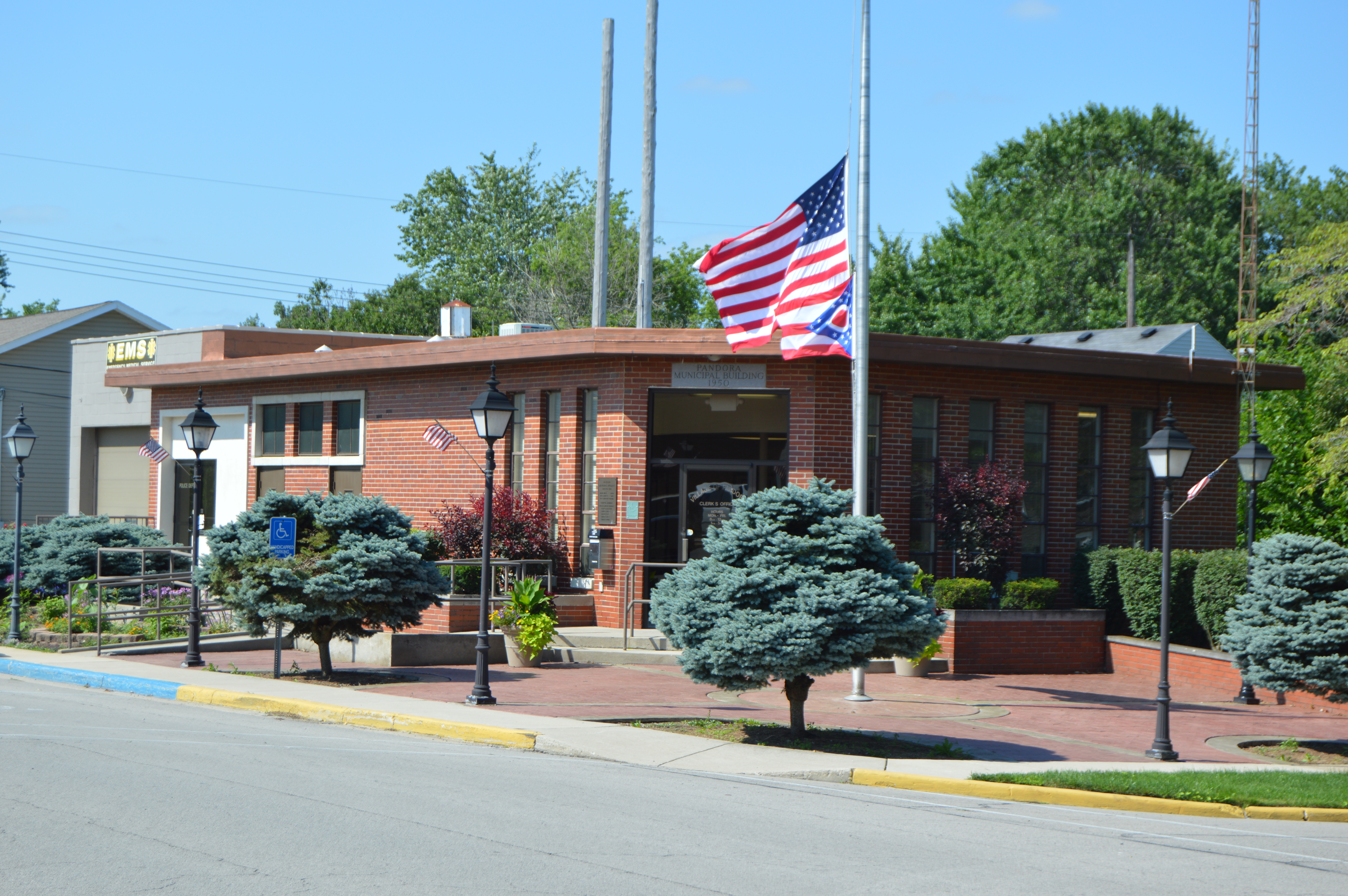 Front and eastern side of the Pandora village hall, located at 102 S. Jefferson Street in central Pandora, Ohio, United States.